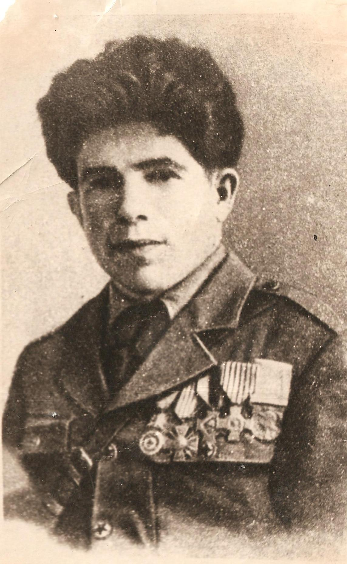 Ahmadiyya Jabrayilov in France with his awards